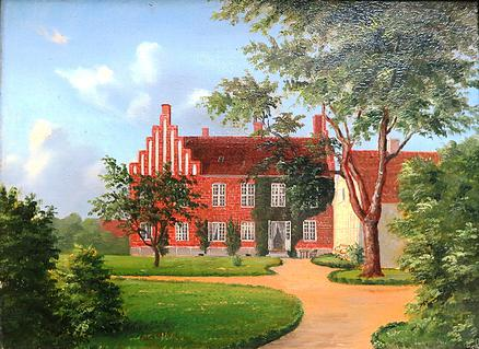 Priorindefløjen of Roskilde Kloster.